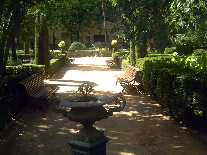 A work release by Javier martin, Jardín Botánico de la Universidad de Granada Granada, Spain 2006, October 7. A free donation to Wikipedia.